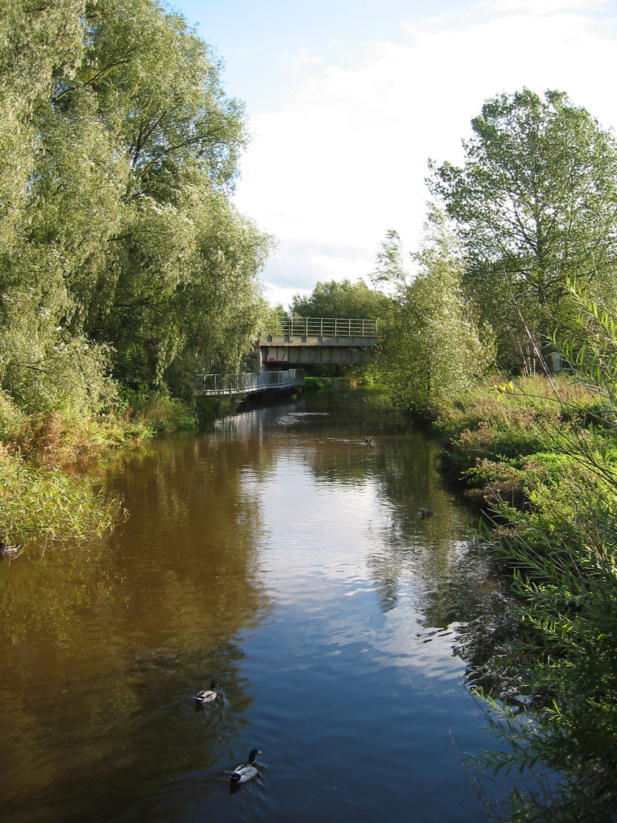 River Weaver, SW Nantwich (SJ648518), showing railway bridge